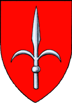 Coat of arms of the Free Territory of Trieste (1947-1954). From wiki.